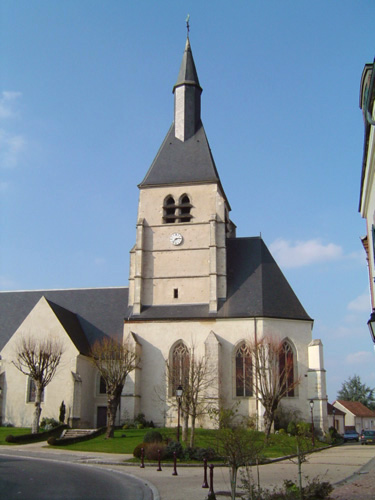 Source : Observatoire du Patrimoine Religieux